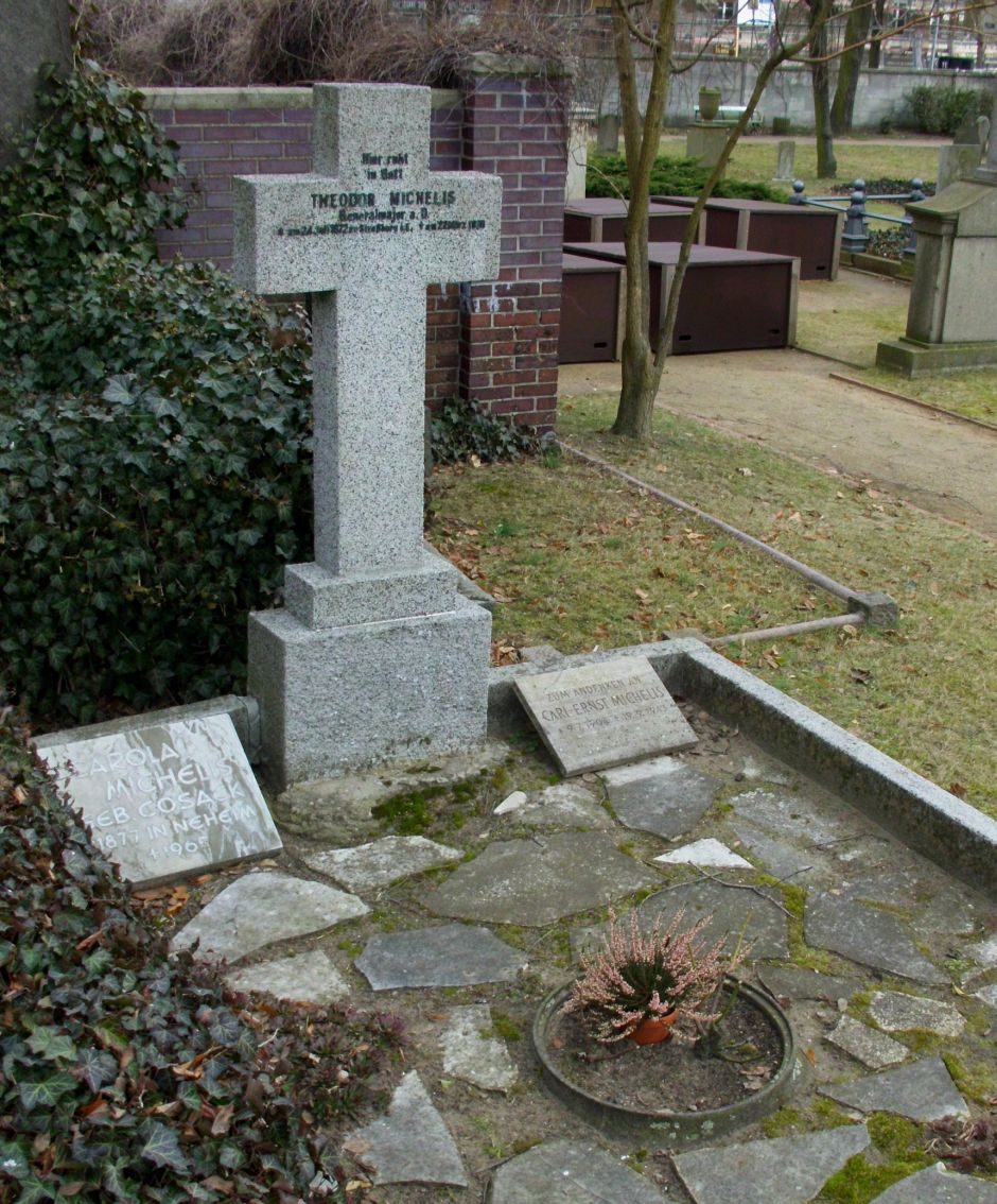 Grave of Theodor, Carola and Carl Ernst Michelis